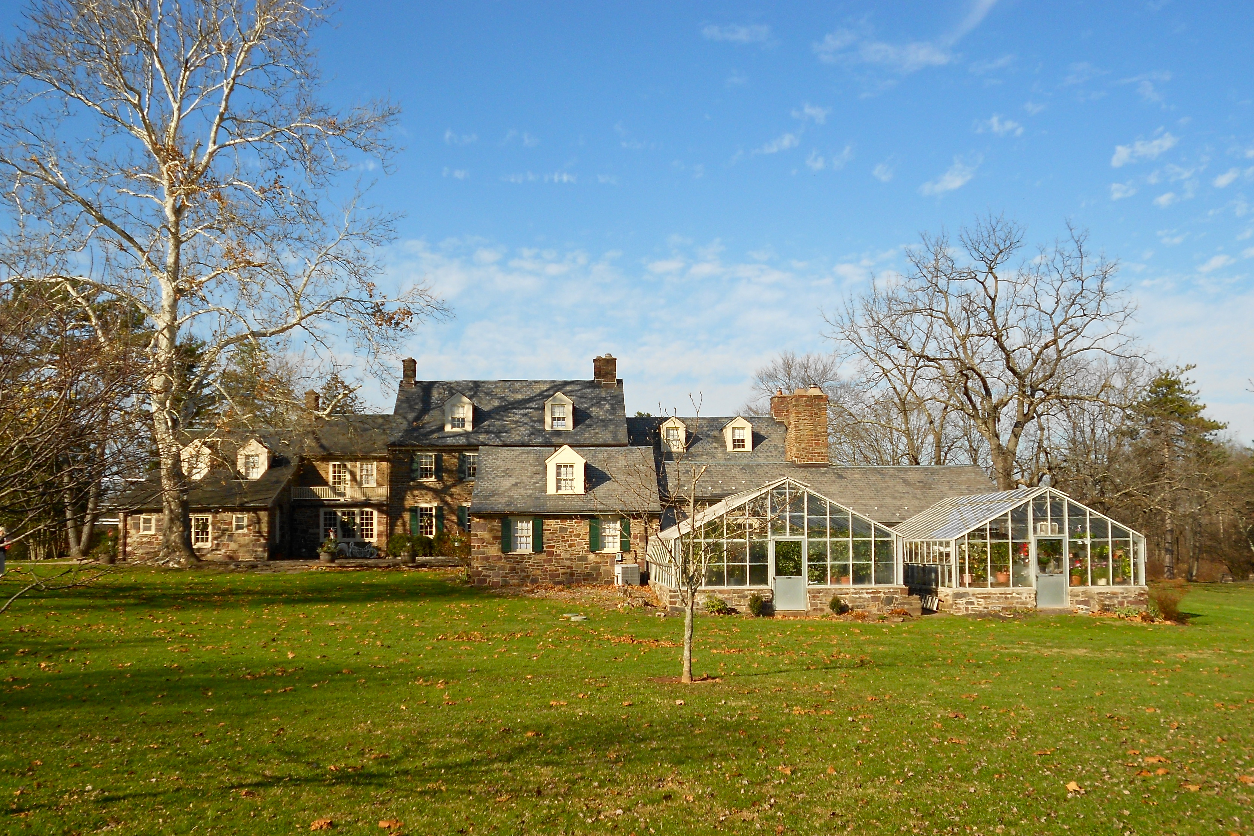 Green Hills Farm, home of Pearl Buck, on the NRHP since February 27, 1974 and a National Historic Landmark. Southwest of Dublin on Dublin Road, Hilltown Township, Bucks County, Pennsylvania. Central house from 1700s, but most of building built in 20th century, e.g. greenhouses